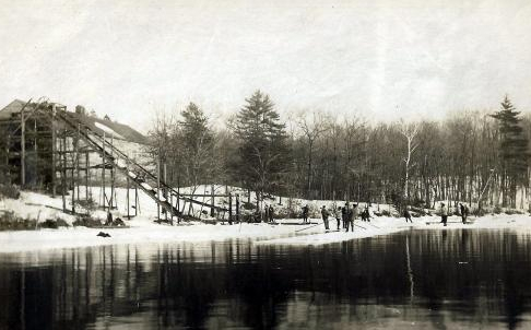 Pomp's Pond was the site of some initiation rites into secret societies at Phillips Academy in Andover, Massachusetts. Source: Andover Historical Preservation. Photo from The Phillipian in 1910. Note: Year is correct; month and day are approximate.